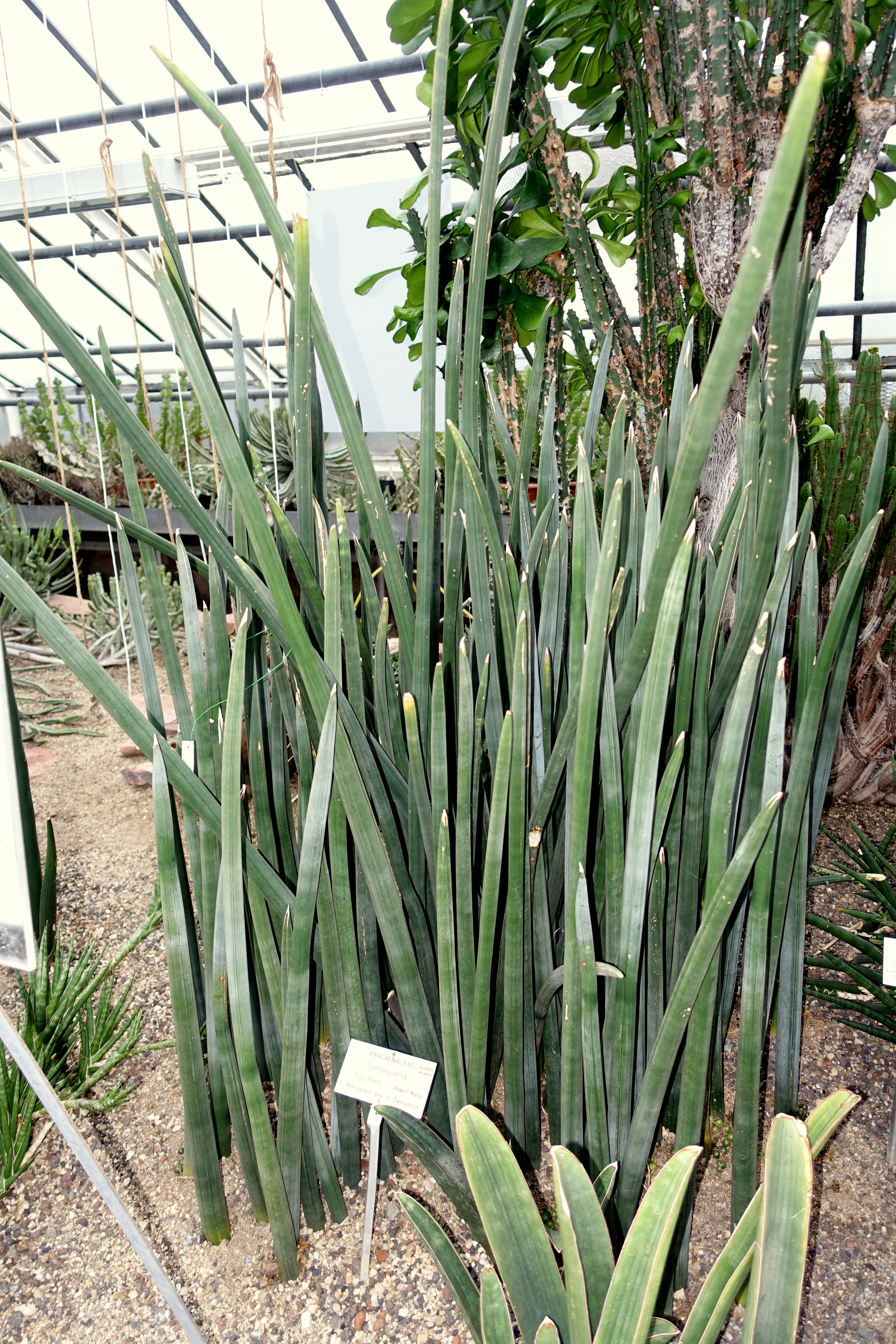 Botanical specimen in the Botanischer Garten - Heidelberg, Germany.